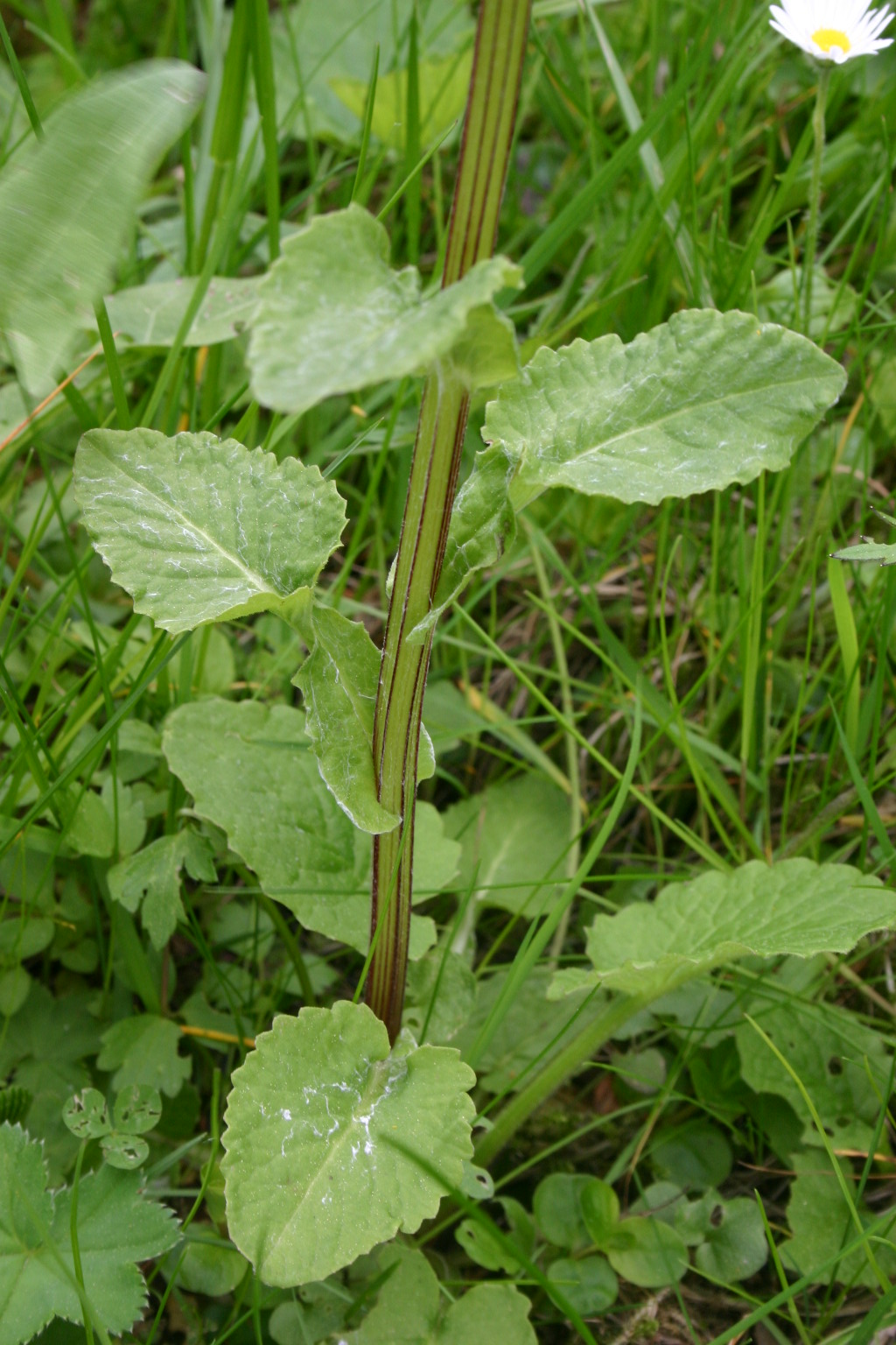 Tephroseris crispa